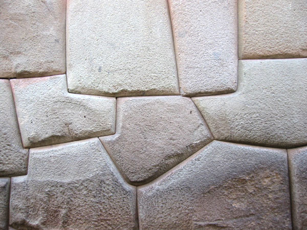 Walls built by Inca in Cuzco/Peru